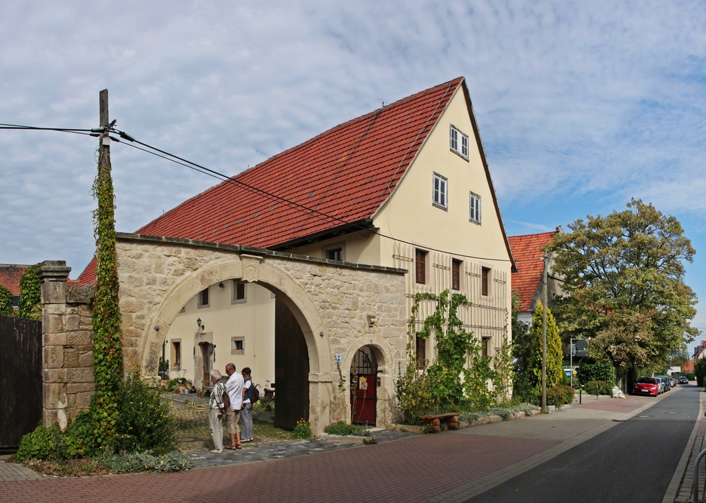 This photo shows a historical farm (built 1784) in Goppeln near Dresden. It is one of the oldest buildings in Goppeln.